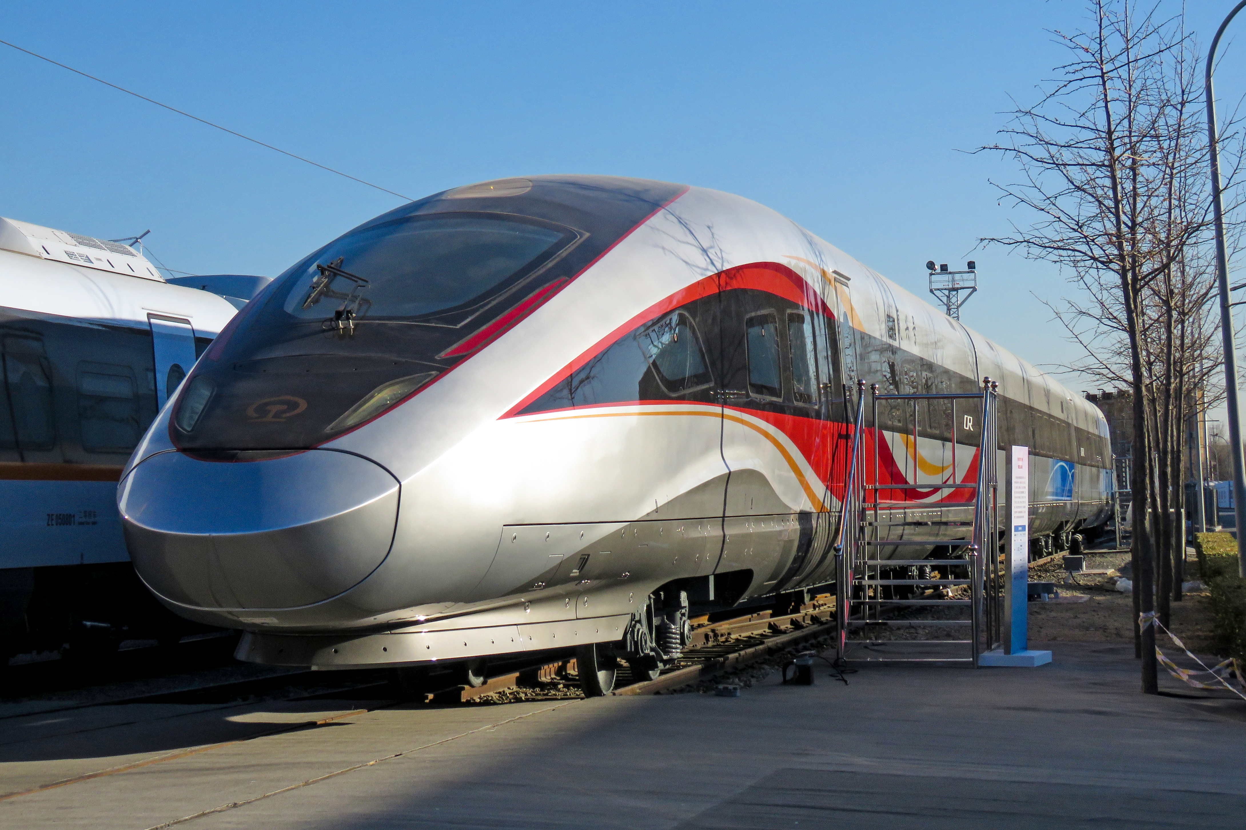 Don't know how to call this "intelligent EMU", but the agent said boarding isn't allowed until 24 December or so. This dragon&phoenix-themed livery resembles the Vibrant Express (MTR380A) to some extent.